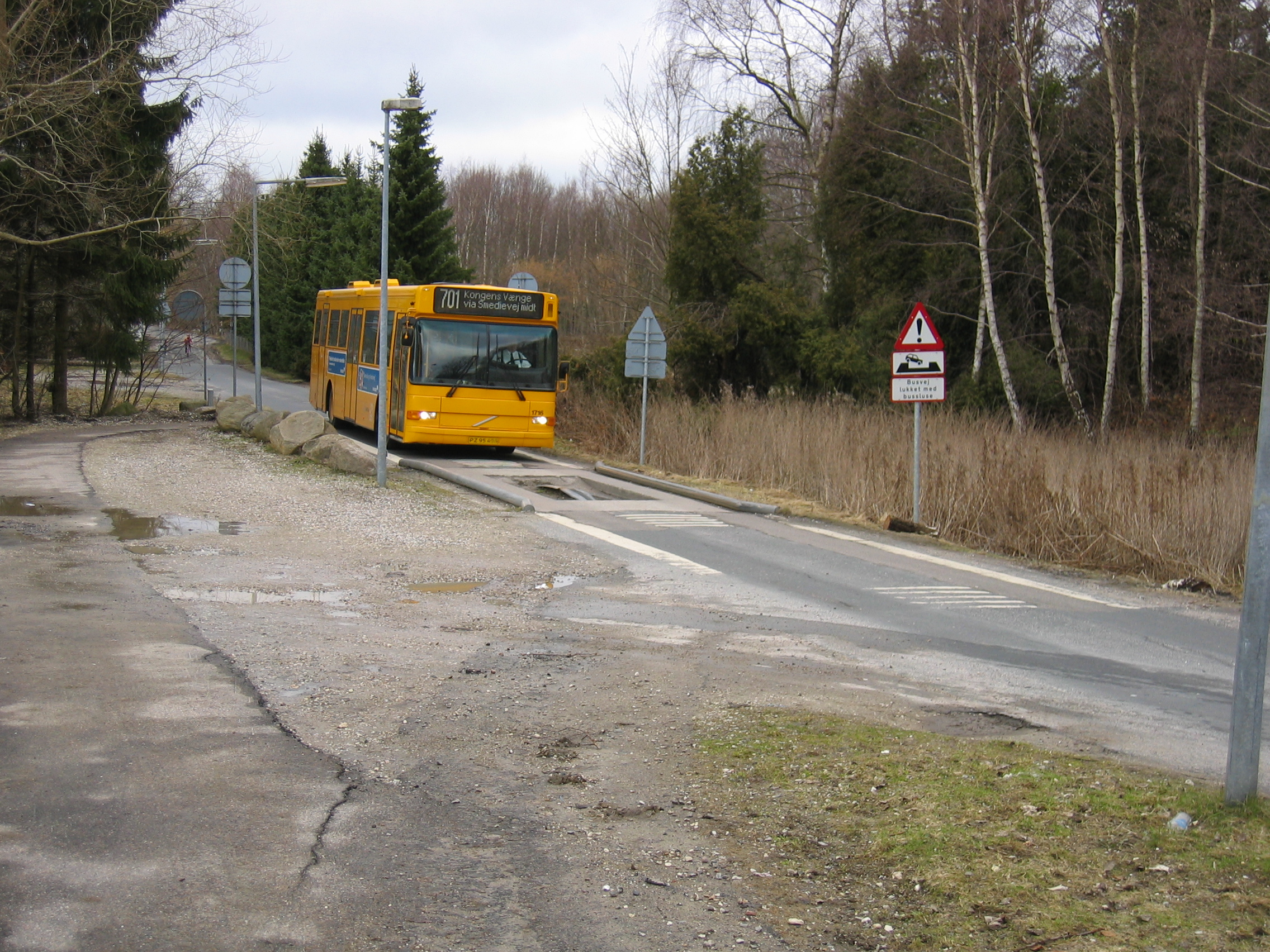 Bus sluice at Hillerød, Denmark